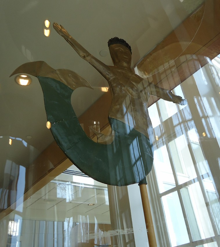 Dickinson College. The Mermaid icon in the library.